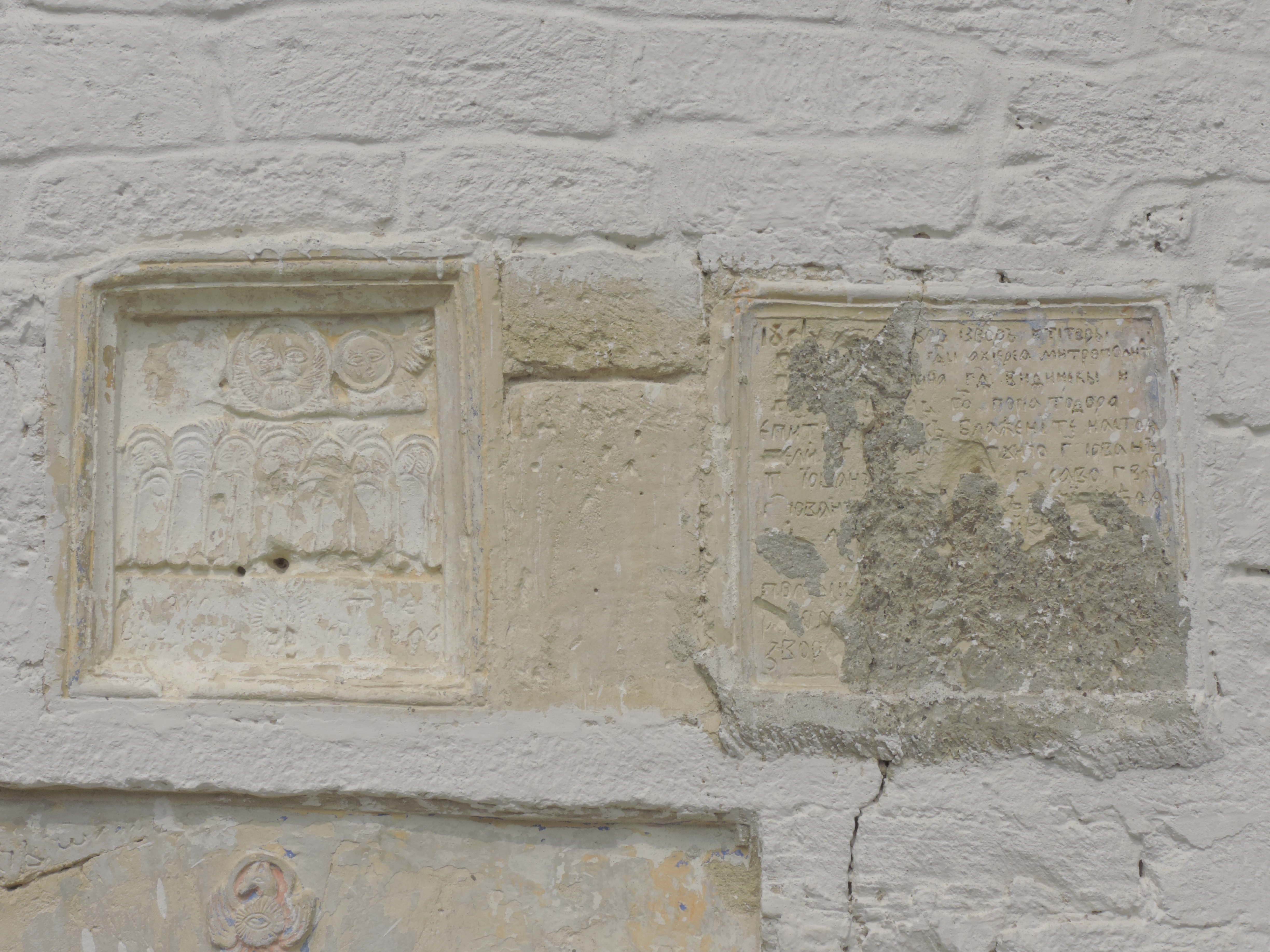 Village Izvor, Dimovo Municipality, Vidin Province, Bulgaria